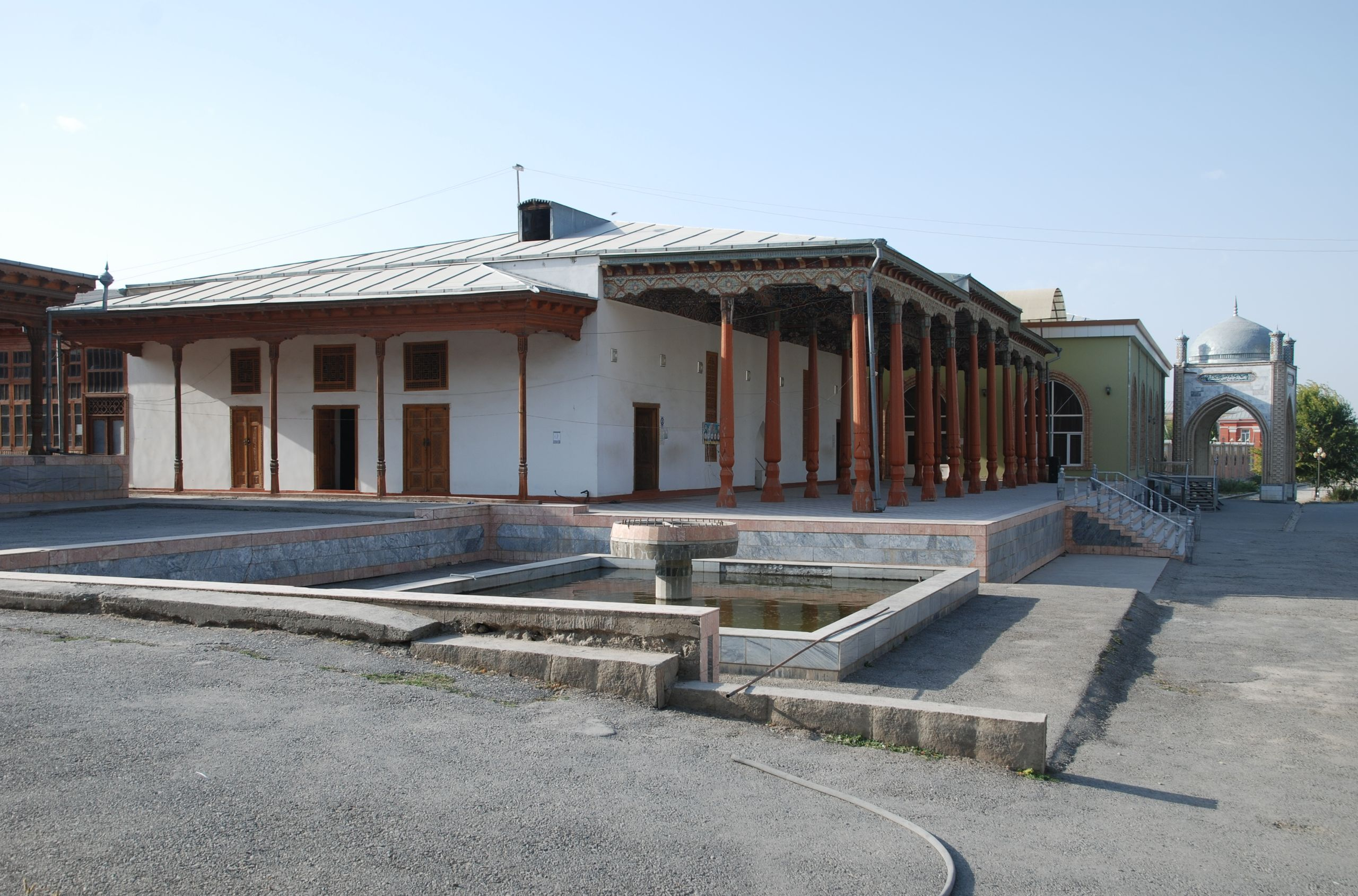 Istaravshan, Sar-i Mazor, mosque